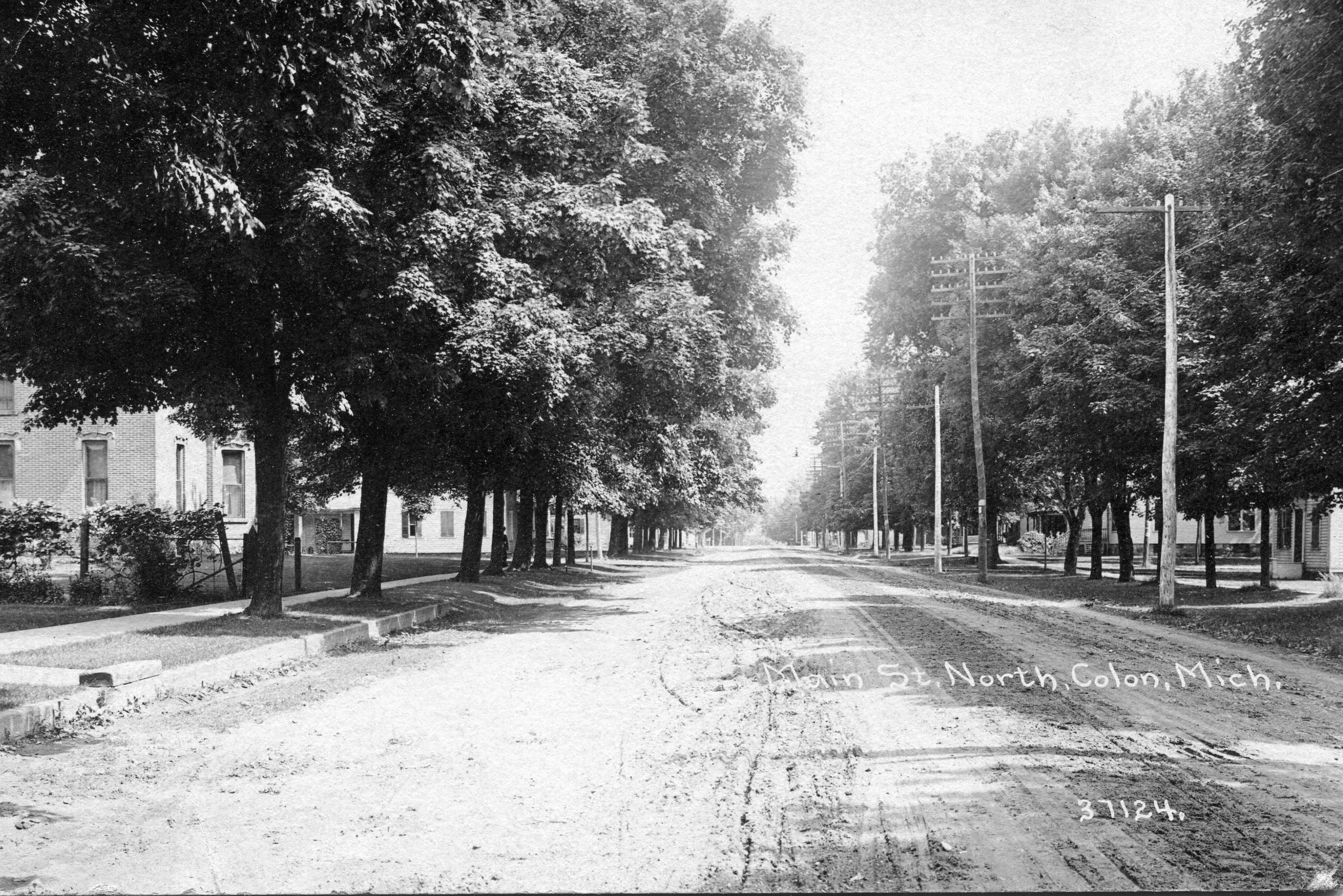 An early photo of Main Street North in Colon, Michigan.